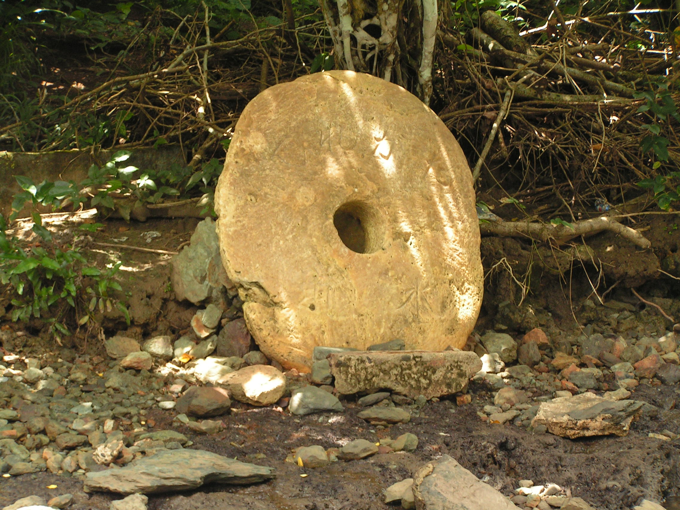 Stone money on Yap